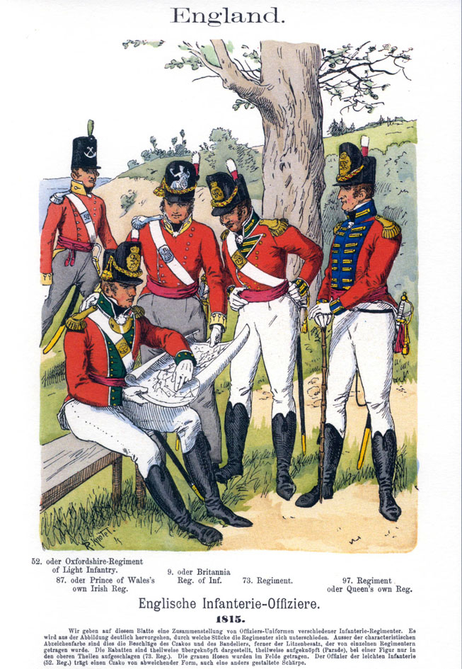 England. Englische Infanterie-Offiziere. 1815